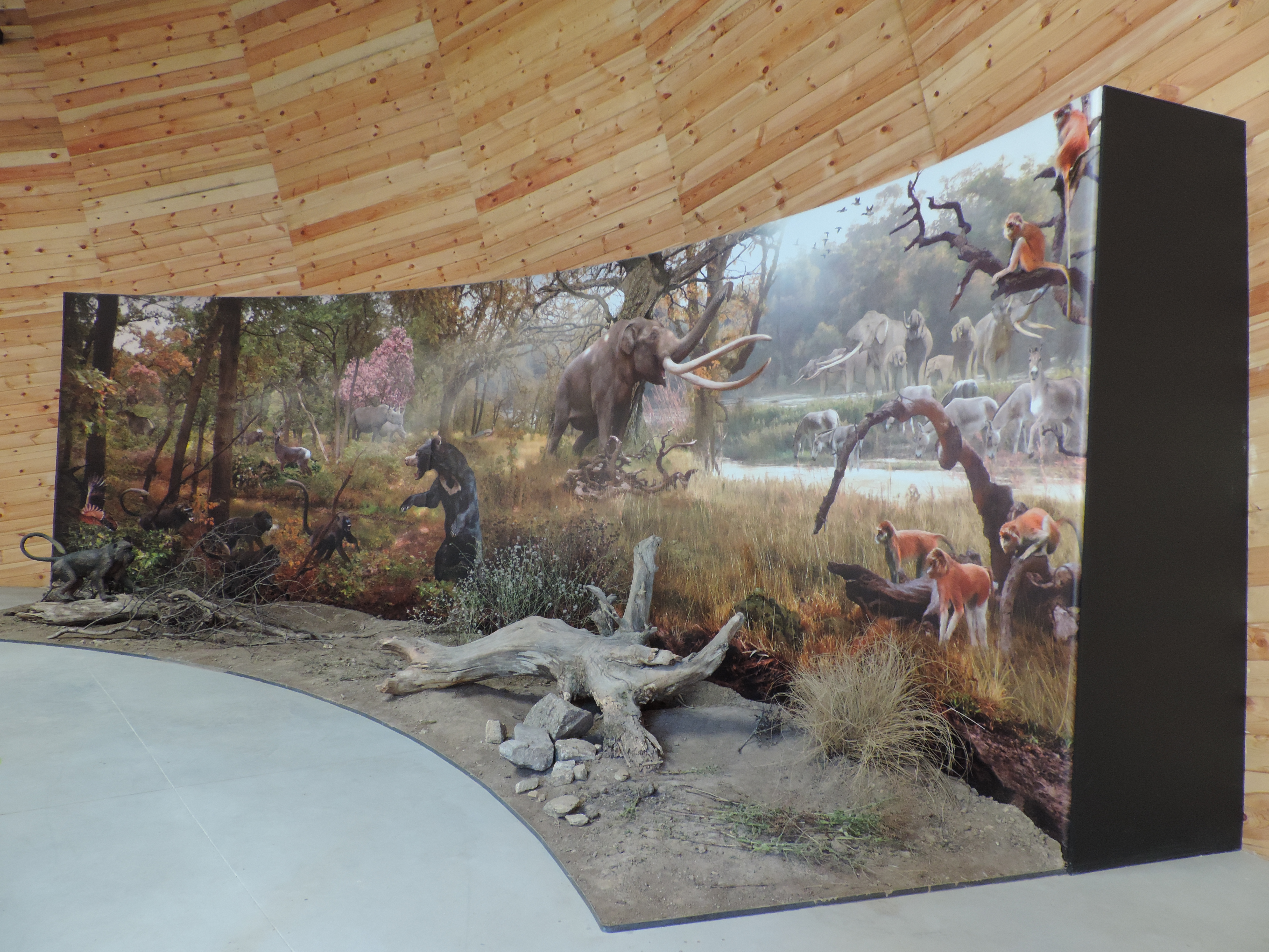 Diorama "Fauna and environment near Dorkovo and on Balkans 5 million year ago", Park Pliocene epoch, Dorkovo, Bulgaria. Author: Simeon Stoilov Studio.